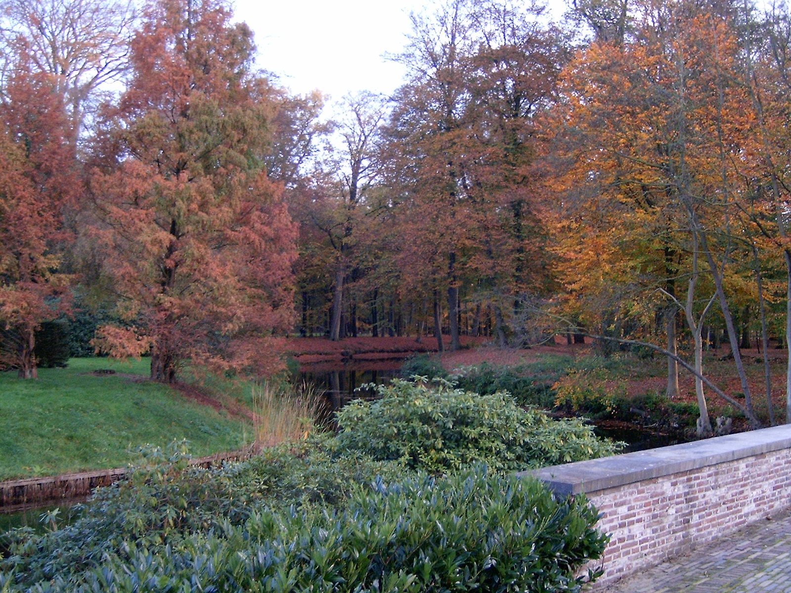 Toamna în Doorn, Ţările de Jos / Autumn in Doorn, the Netherlands.